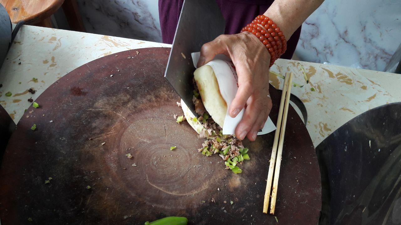 Cooker preparing roujiamo in Fenghuang County, Hunan province, China.